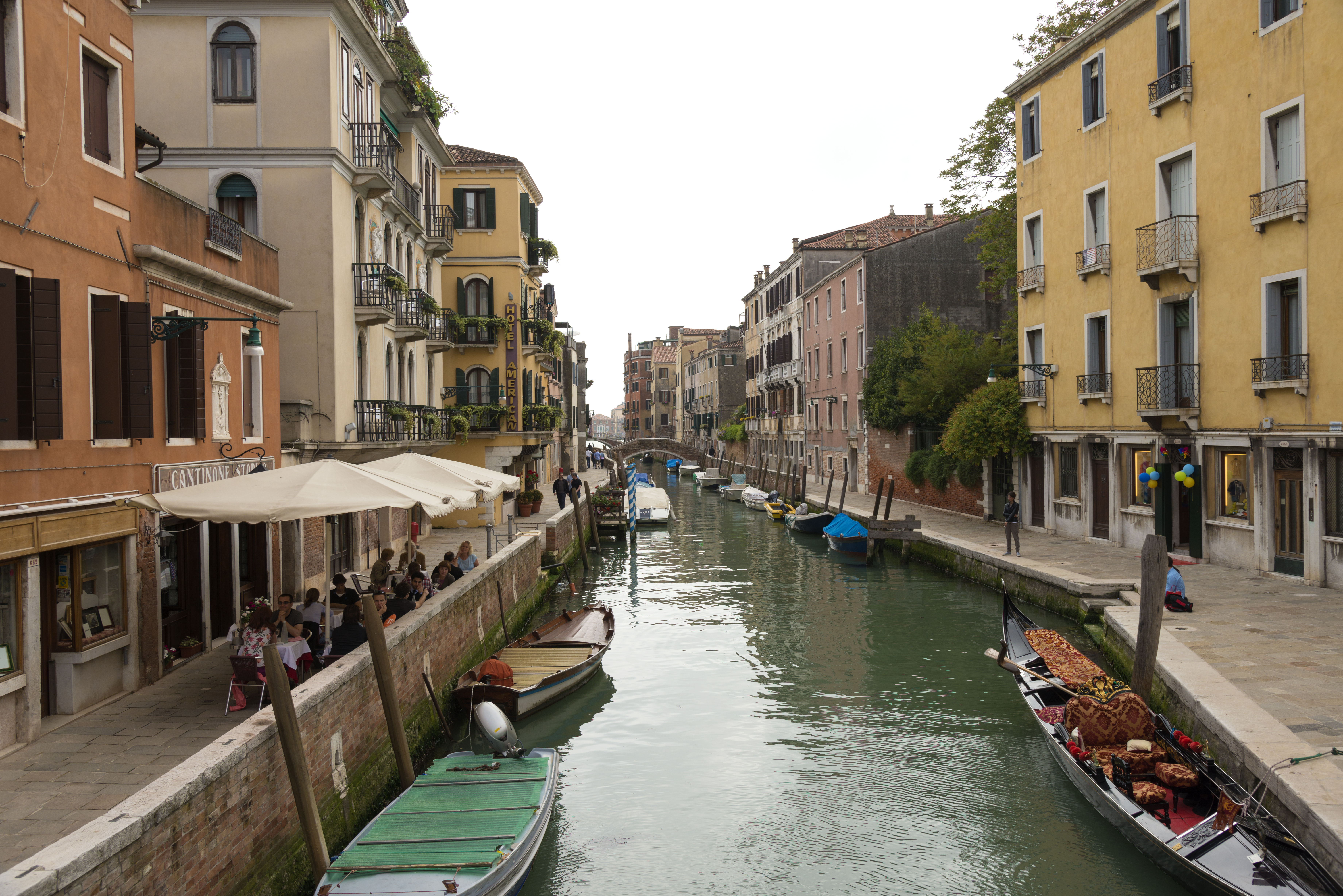 Rio de San Vio, seen from "Ponte de San Vio to Ponte de Mezo", Venice.